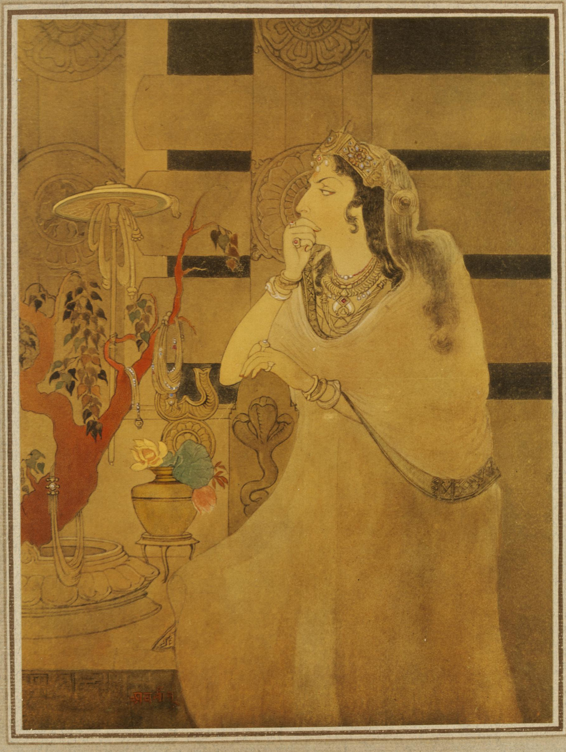 The scene depicts the graceful figure of Asoka's Queen standing in front of the railings of the Buddhist monument at Sanchi built during the reign of her husband King Asoka. The print is based on an original painting held in the Royal Collection at Windsor Castle. Abanindranath Tagore (1871-1951) was the pioneer and leading exponent of the Bengal School of Art. In his paintings, he sought to counter the influence of Western art as taught in art schools under the British Raj, by modernizing indigenous Moghul and Rajput traditions. His work became so influential that it was eventually accepted and regarded as a national Indian style.